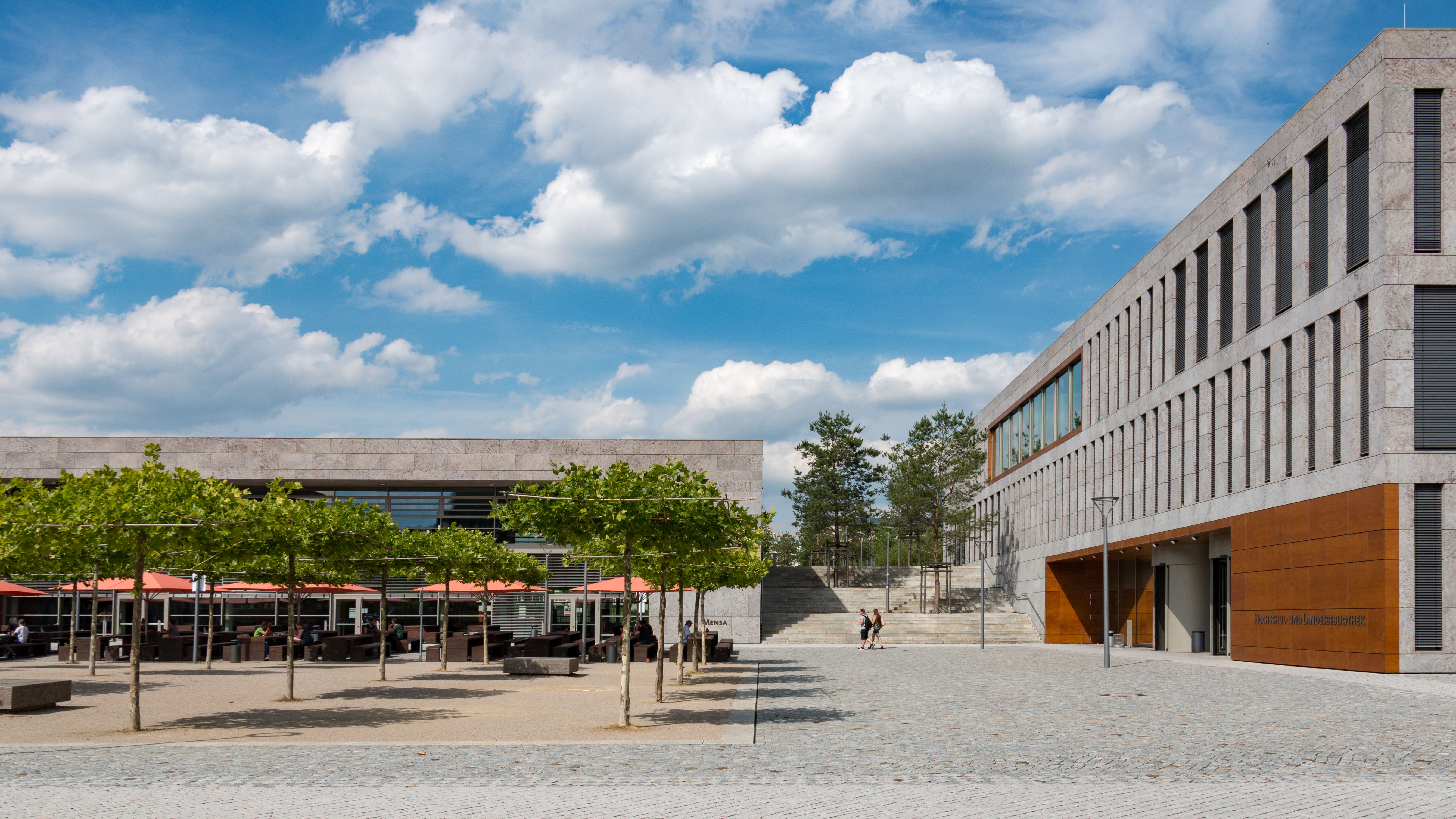 The new dining hall and the libary on the campus of the Fulda University of Applied Sciences